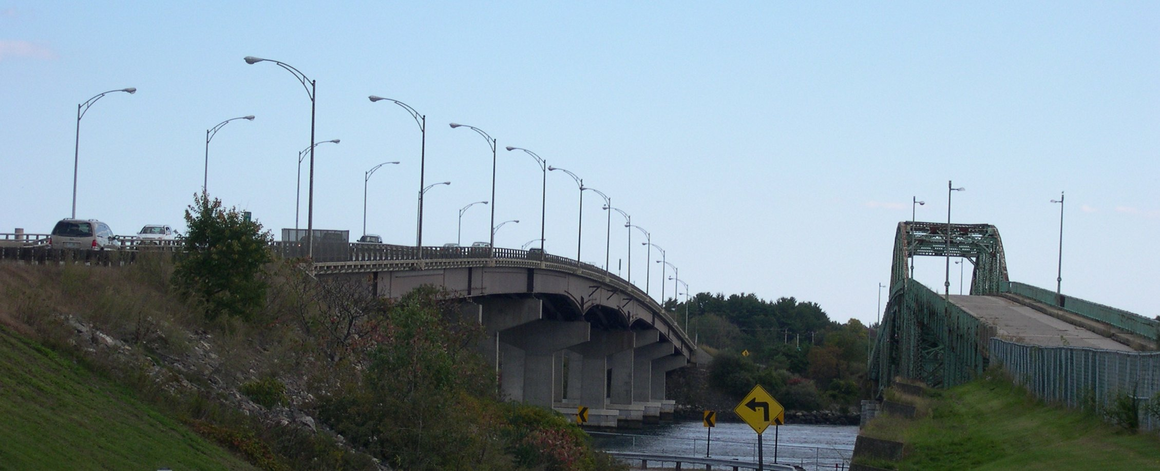 The Little Bay Bridge (left) and the General Sullivan Bridge (right), looking south from Dover Point